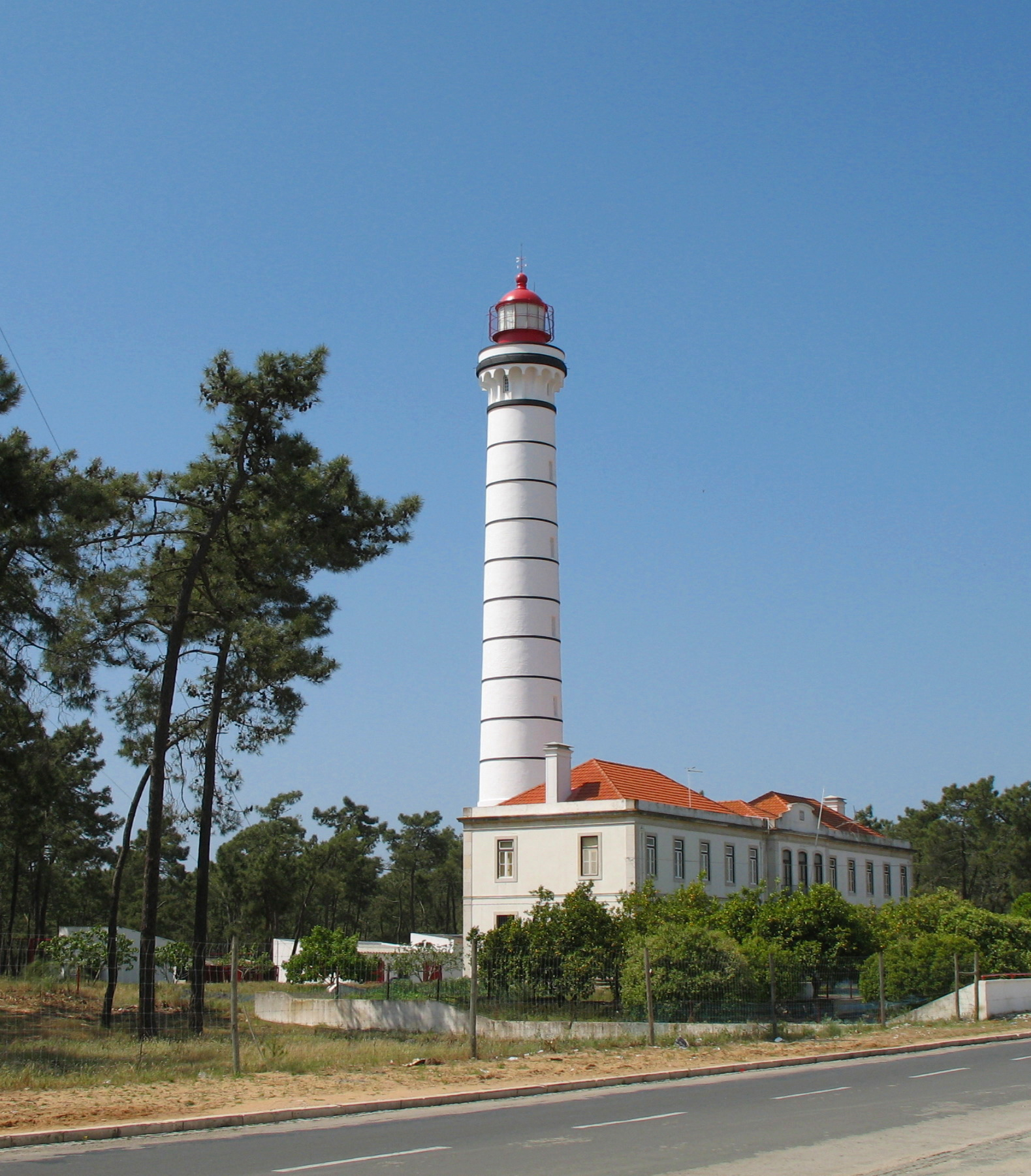 Vila Real de Santo António (Algarve, Portugal): the lighthouse